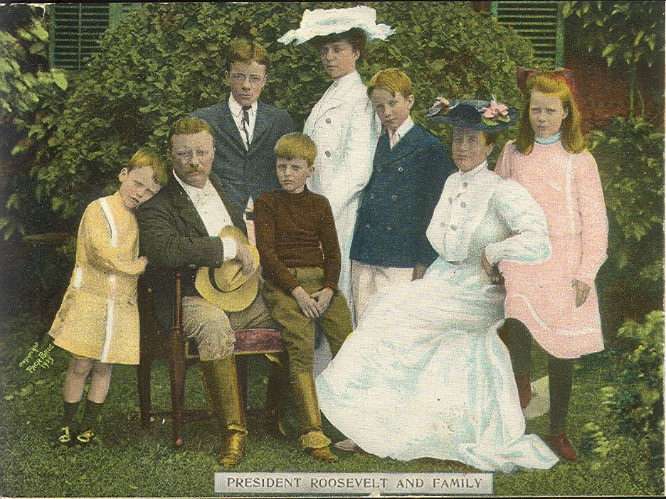 Colorized image of US President Theodore Roosevelt and family from 1903 postcard.